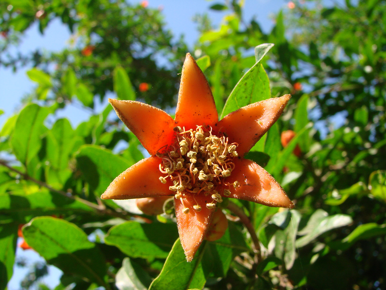 Pomegranate Blossom